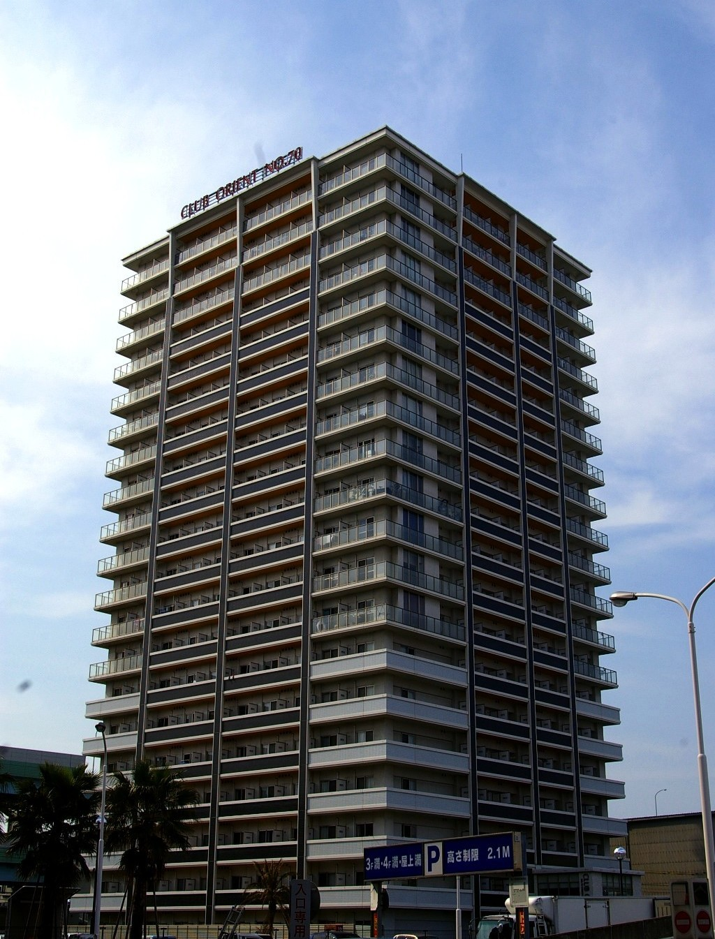 Higashi-ward